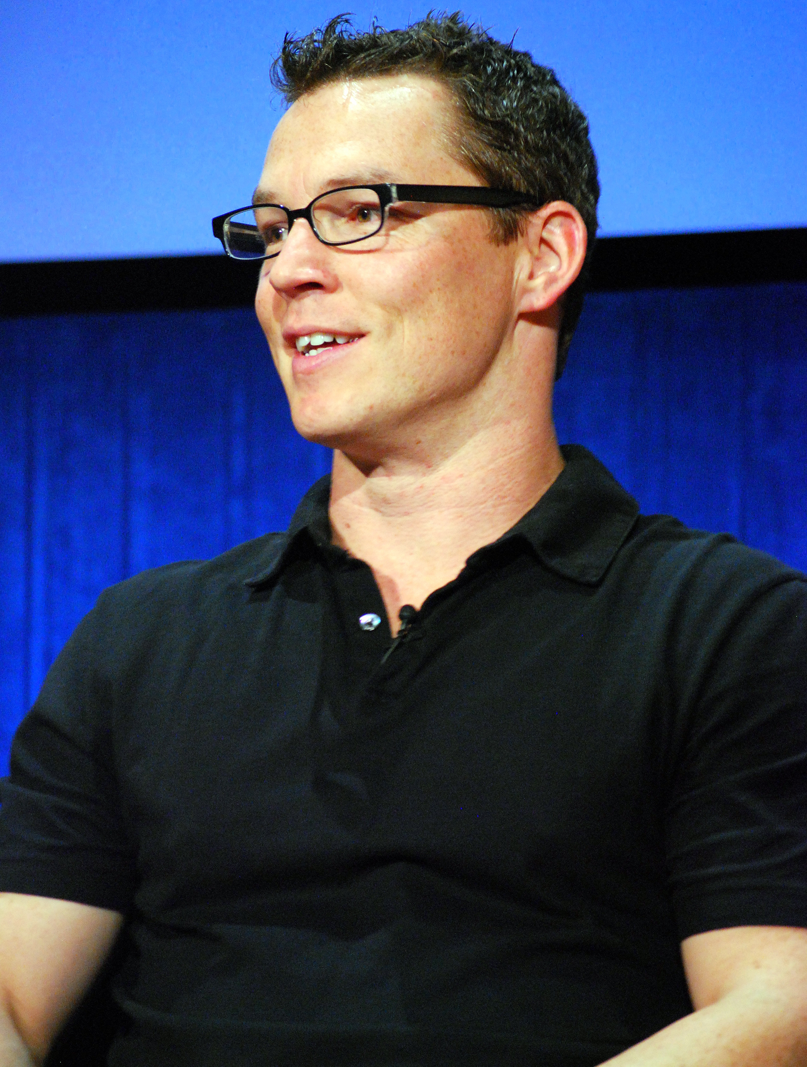 Shawn Hatosy at the Paley Center: An Evening with SoutLAnd 2011.